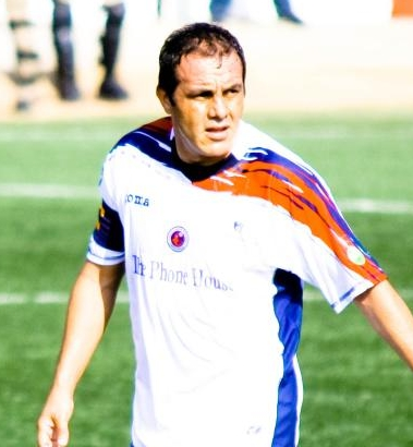 Crop of Cuauhtemoc Blanco with Veracruz.